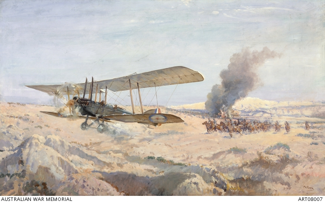 Lieutenant F H McNamara and Captain D W Rutherford were returning from an aerial bombing near Gaza on 20 March 1917 when Captain Rutherford was forced down. Although wounded and under heavy rifle fire from the Turkish Cavalry, Lieutenant McNamara landed to rescue Captain Rutherford. Upon attempting to take off with Rutherford, McNamara crashed his RE8 aircraft. However they then succeeded in starting Rutherford's machine and escaped from the enemy attack. For this exploit McNamara was awarded the Victoria Cross.